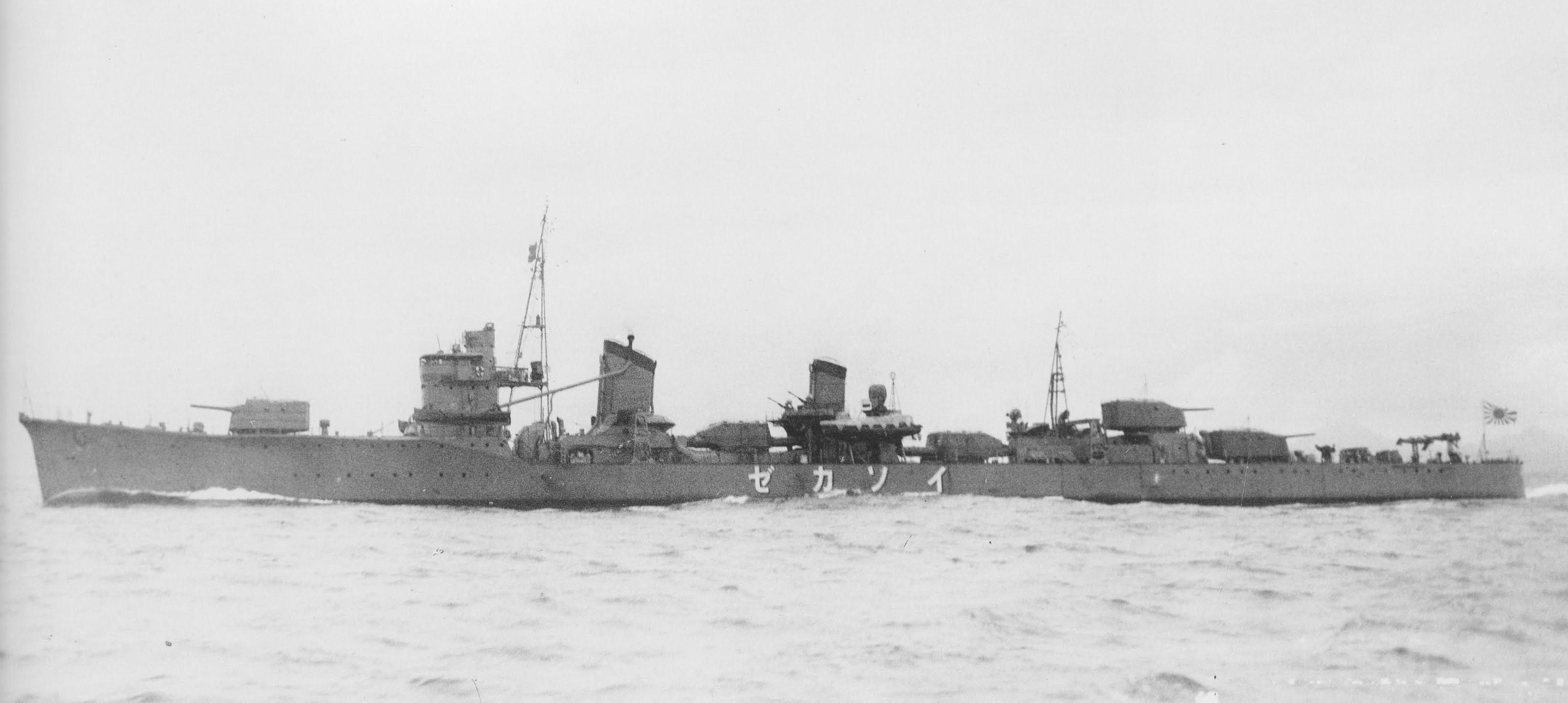 Imperial Japanese Navy destroyer Isokaze, the second Japanese warship to bear that name.